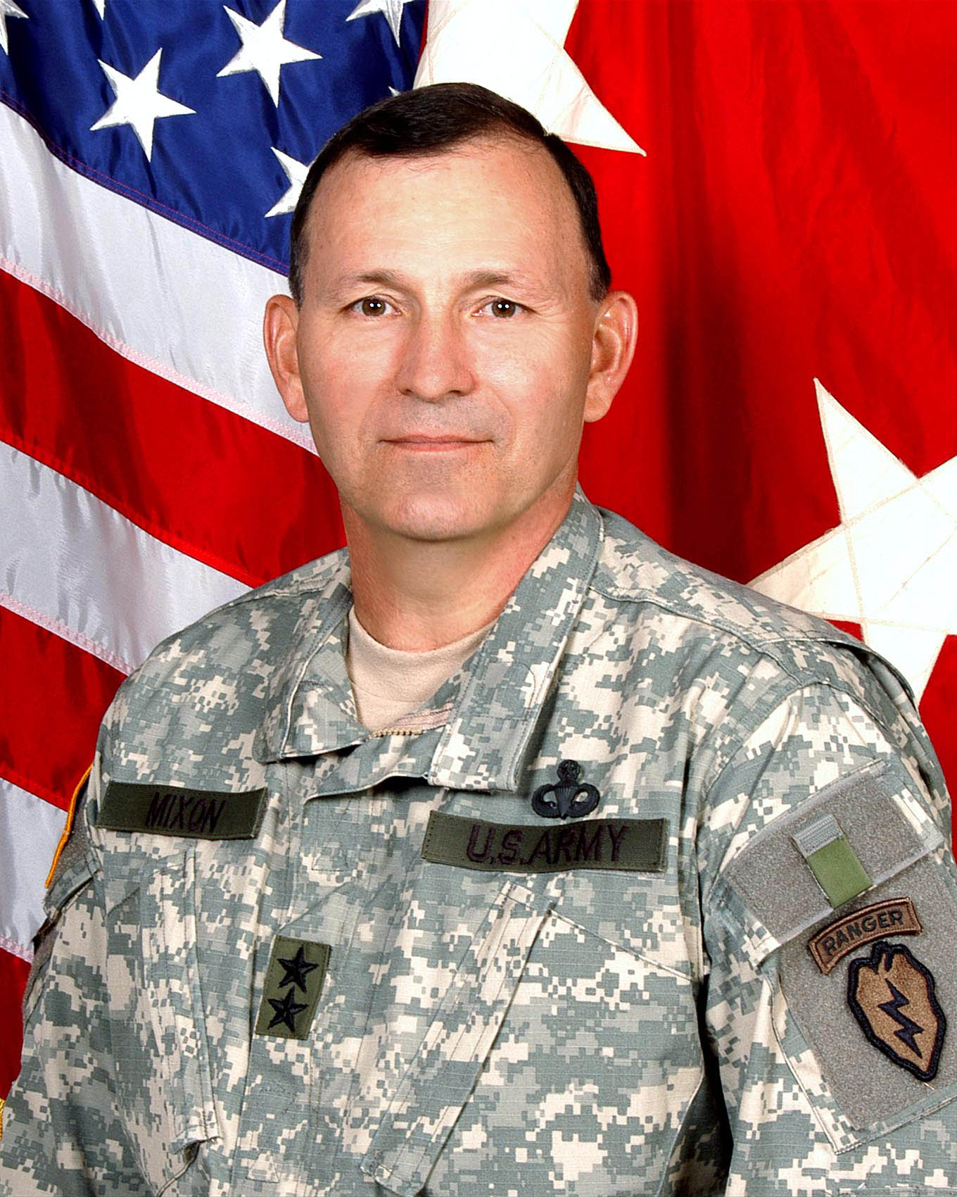 General Benjamin R. Mixon, Commander of the 25th Infantry Division (United States)|25th Infantry Division